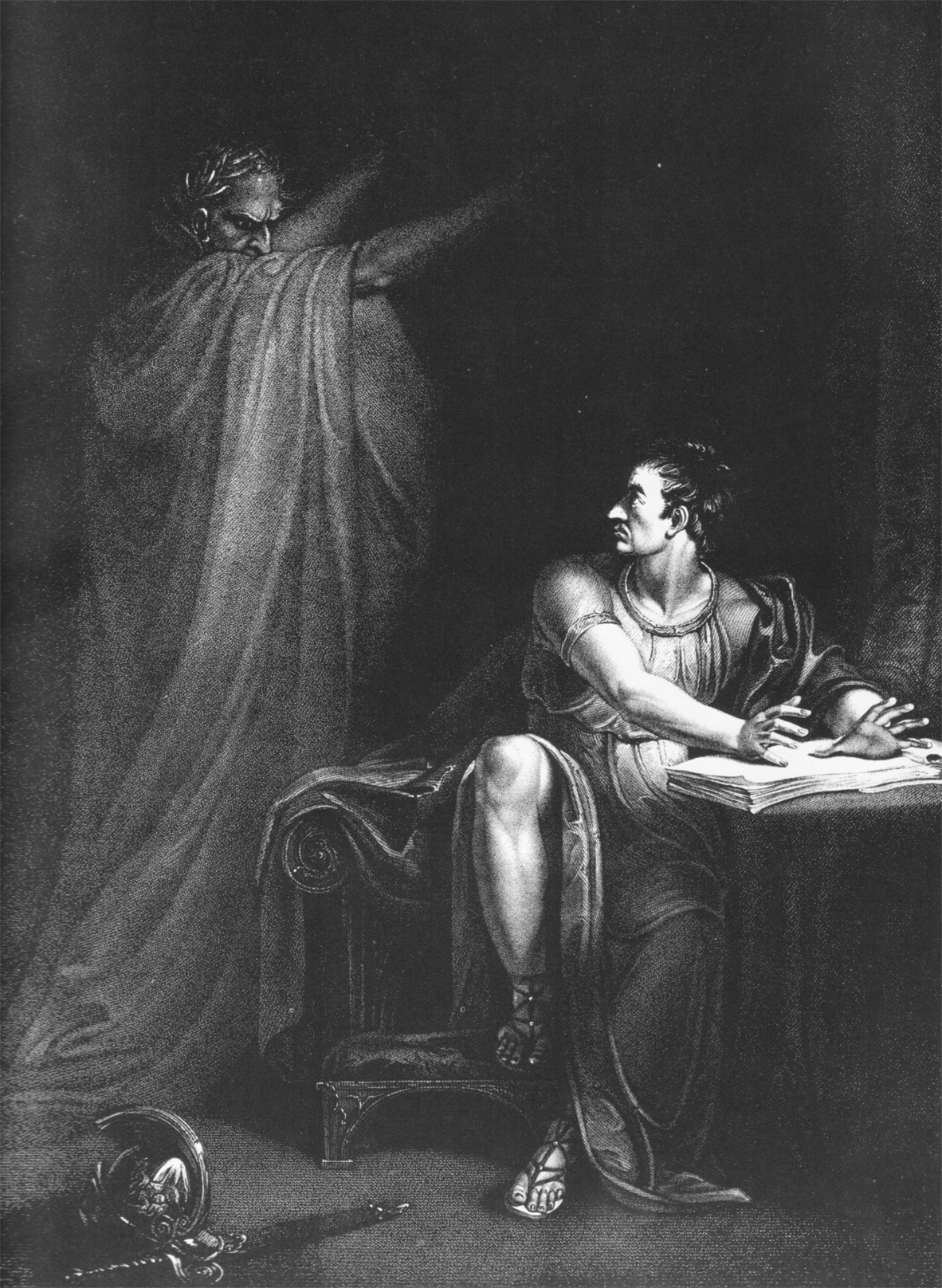 Brutus and the Ghost of Caesar. Copperplate engraving by Edward Scriven from a painting by Richard Westall. London, 1802. 8.5 x 11.5 inches. Caption: "XXX. JULIUS CAESAR. ACT IV. SCENE III. BRUTUS'S TENT, IN THE CAMP NEAR SARDIS. Brutus and the Ghost of Caesar."